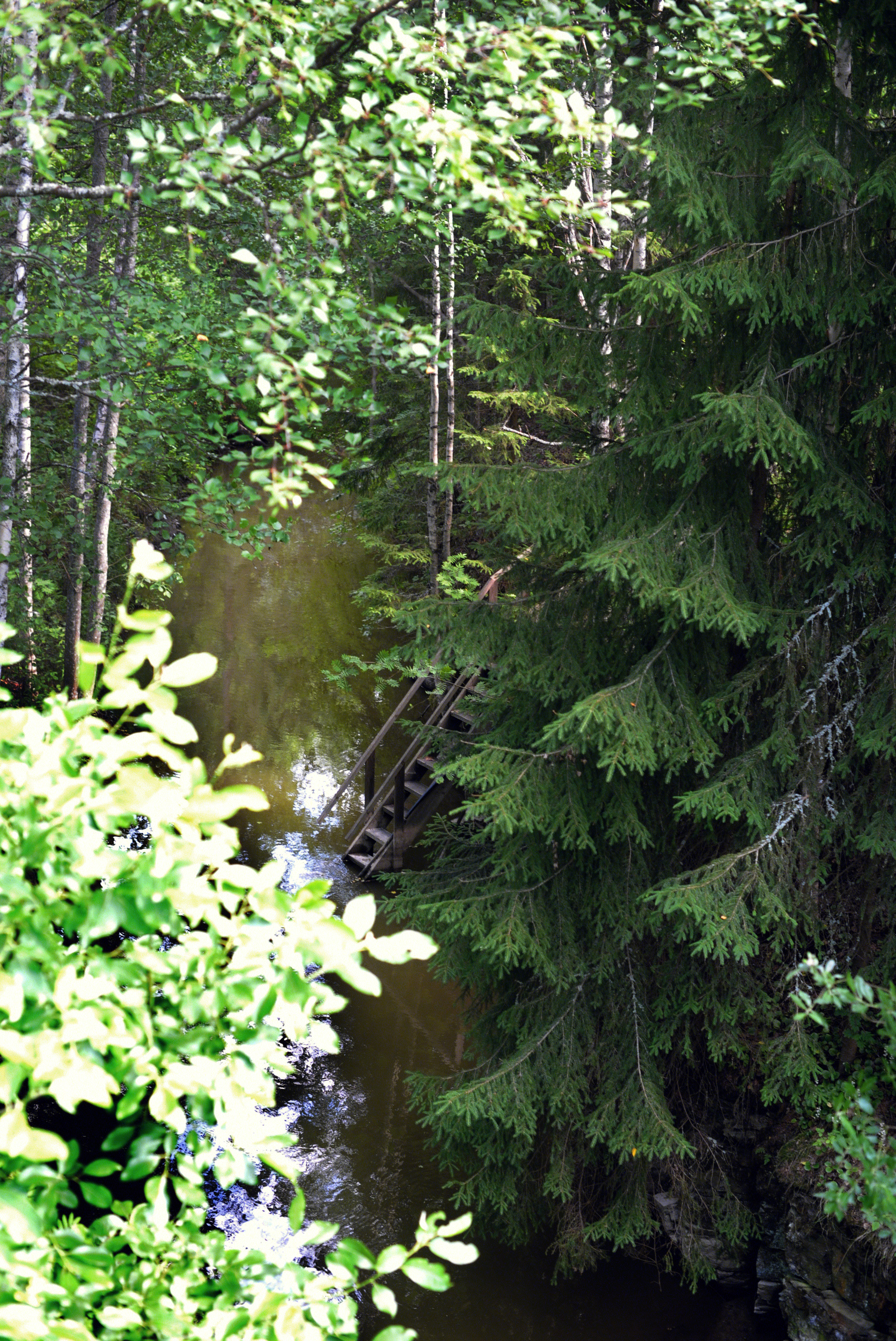 Kirjavala Channel 7/2011